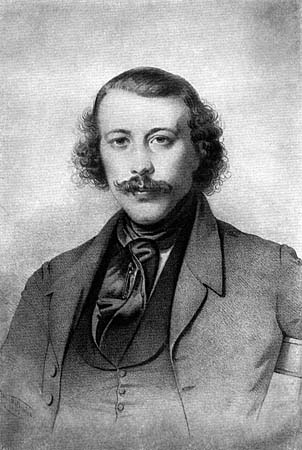 A portrait depicting the young Mikhail Bakunin. The portrait is from 1843 and drawn by H. Mitreuter.